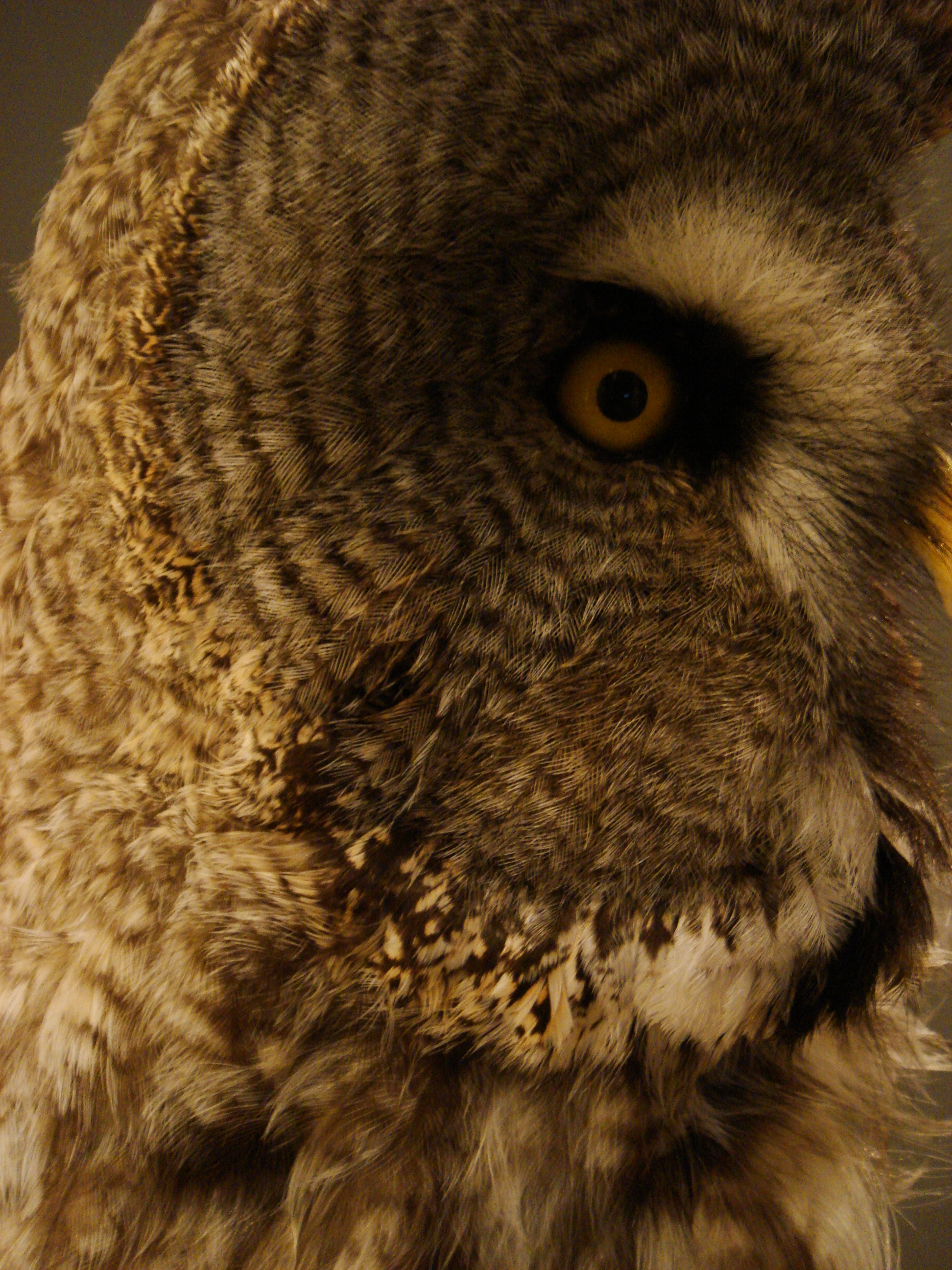 Strix nebulosa. Zoological Museum, Copenhagen. Picture by Stefano Bolognini.